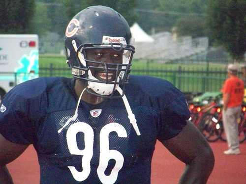 Alex Brown at the Bears training camp in Bourbonnais, Illinois.